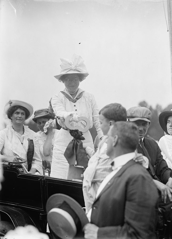 DENNETT, MRS. MARY WARE. SUFFRAGETTE